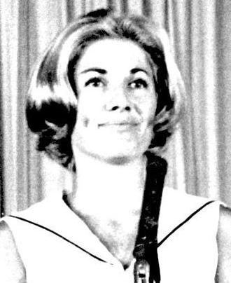 Scope and content: Original caption: Rene Carpenter, wife of America's second astronaut to orbit the earth, responds to questions from the press at Cocoa Beach, Florida shortly following the landing of her astronaut husband. With her are their children (left to right) Jay, Kristy, Candy and Scott.